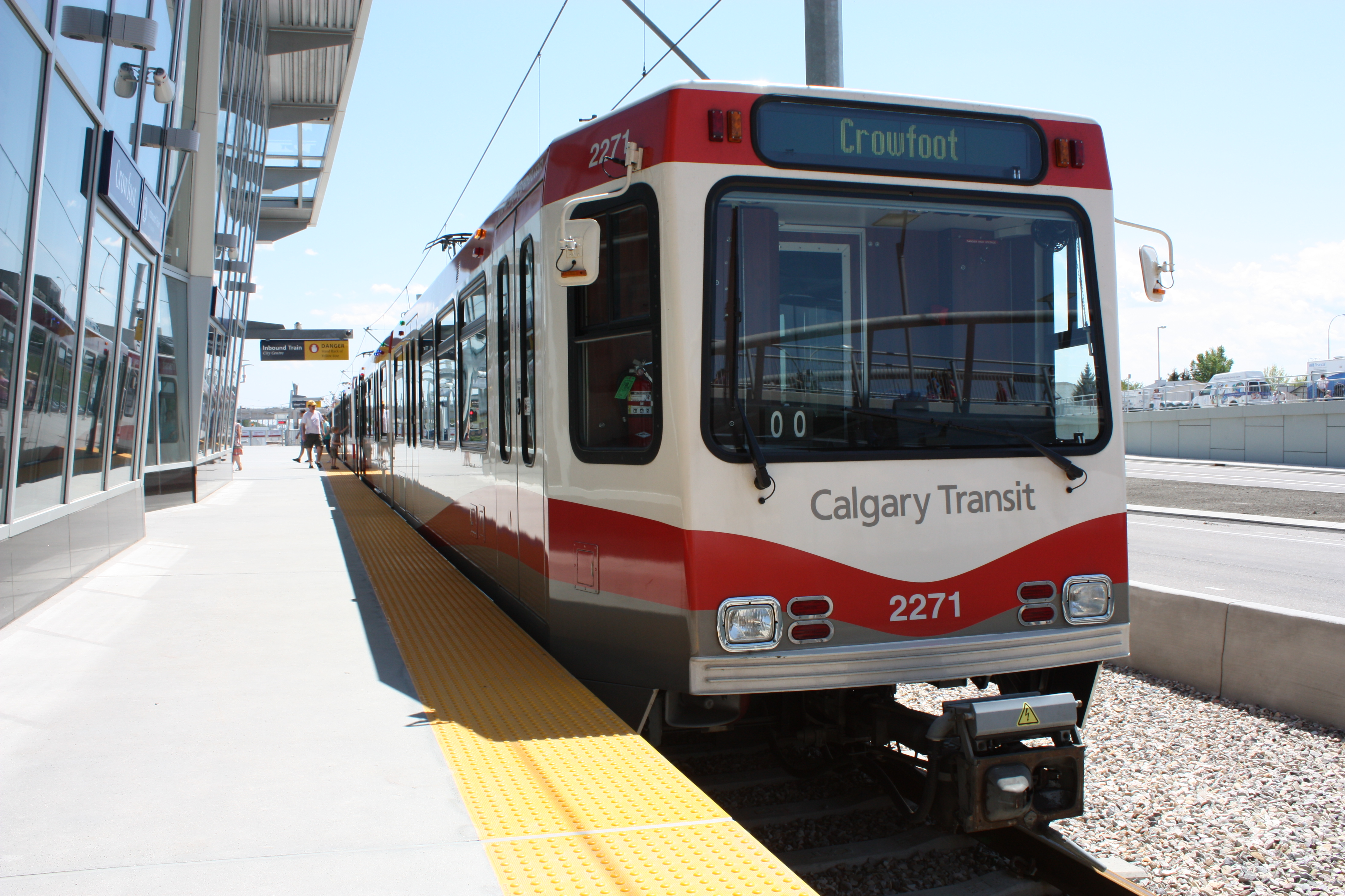 Train at Crowfoot Station platform during the stations opening ceremonies.